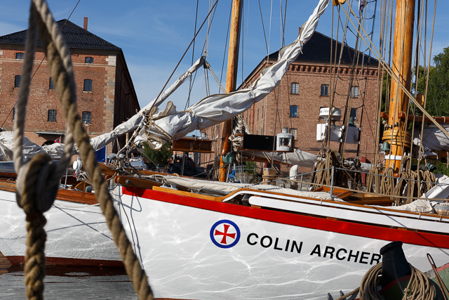 Ships participating in Kyststevnet 2014 in Oslo, Norway